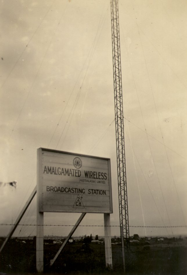 The old 2CH radio station in Ermington, Sydney, Australia, on the site of what is now Timor Barracks. Exact date is unknown, but it was before the 1960s. This photograph was taken by my grandfather William Devaney, who is now deceased. It was scanned by me. As such, I consider myself, John Dalton, to be the copyright holder. I agree to license this photograph under the GNU General Public License. This picture has been cropped slightly. I have the original uncropped file and the paper print to prove ownership if anyone tries to falsely claim they own the photograph.